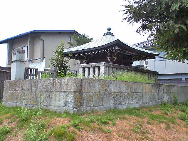 Grave of father of Kuroda Yoshitaka. in mega,Himeji.